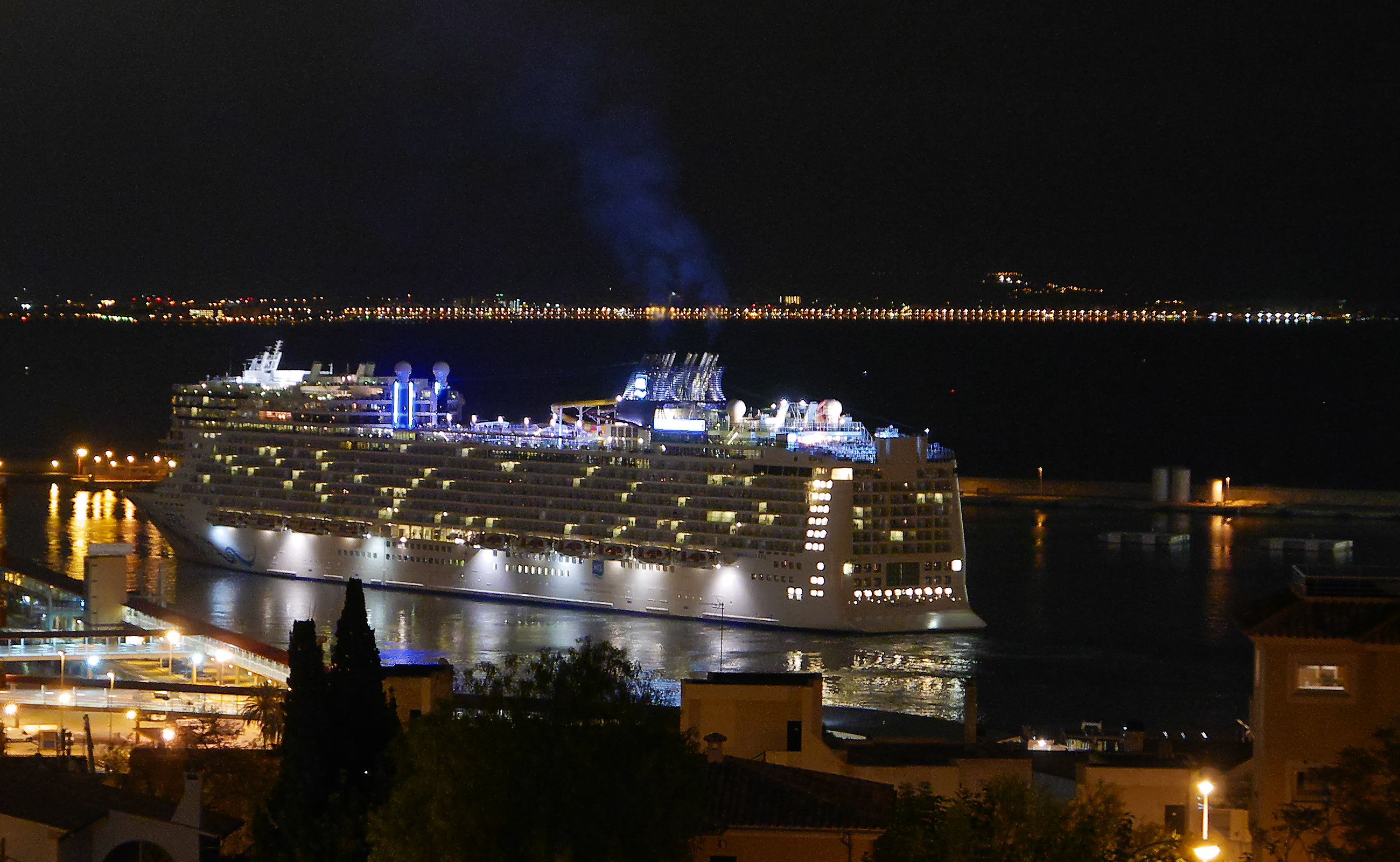 Departing Palma, Mallorca